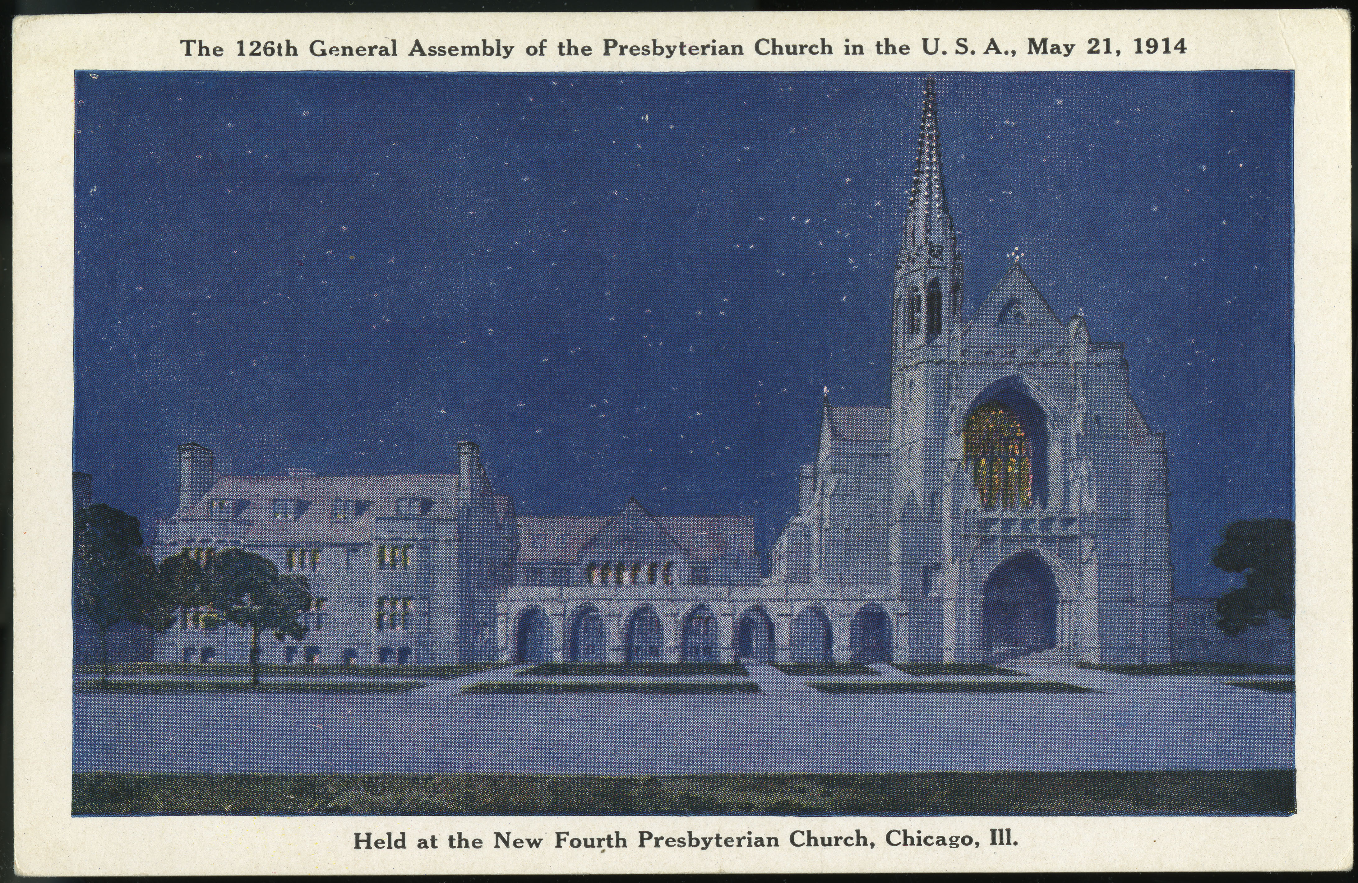 Fourth Presbyterian Church in Chicago from a pre-1923 postcard From RG 428, Postcard Collection, Presbyterian Historical Society, Philadelphia, Pennsylvania.